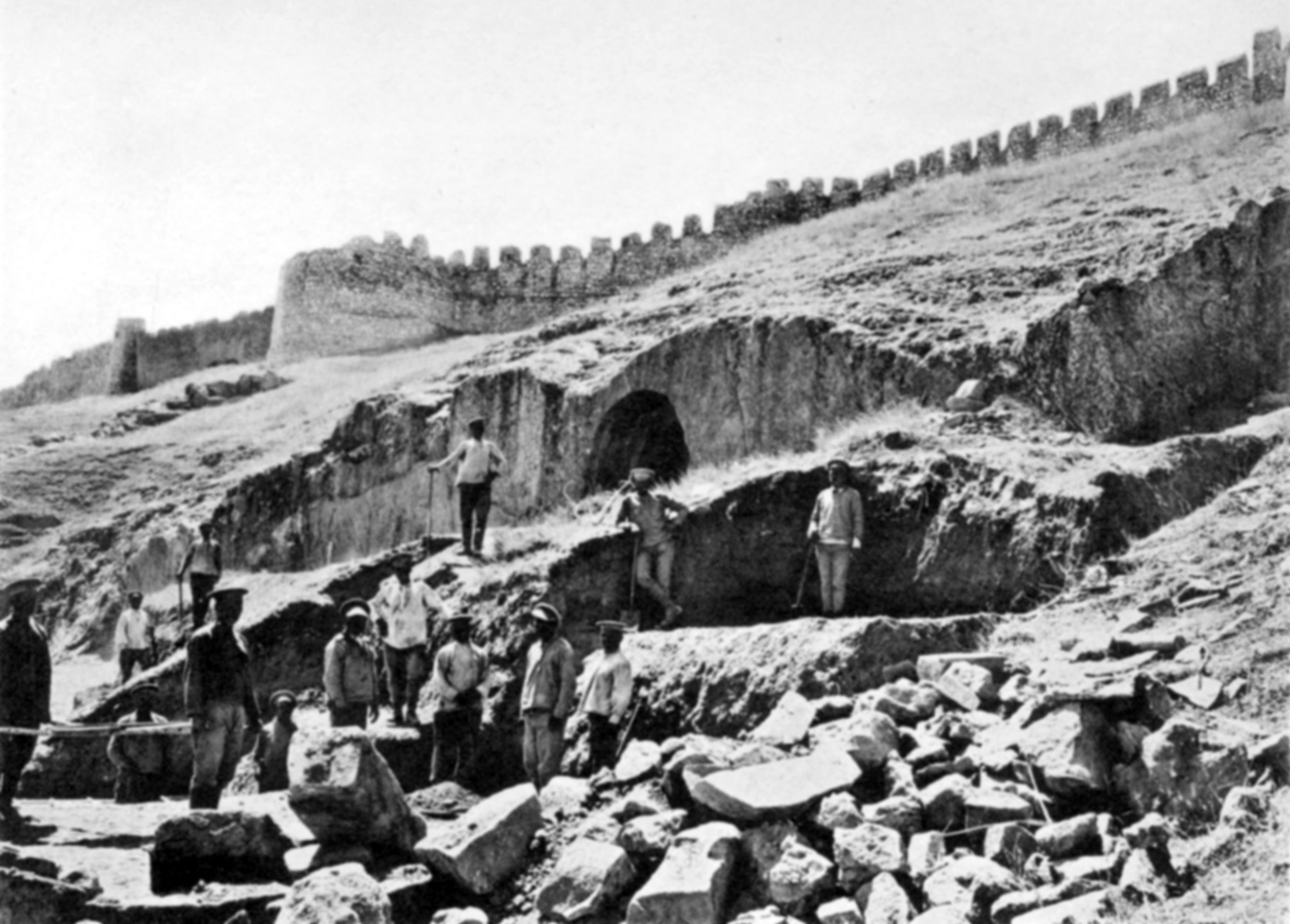 Excavations on the archaeological sites of Tushpa, Turkey, in 1915.